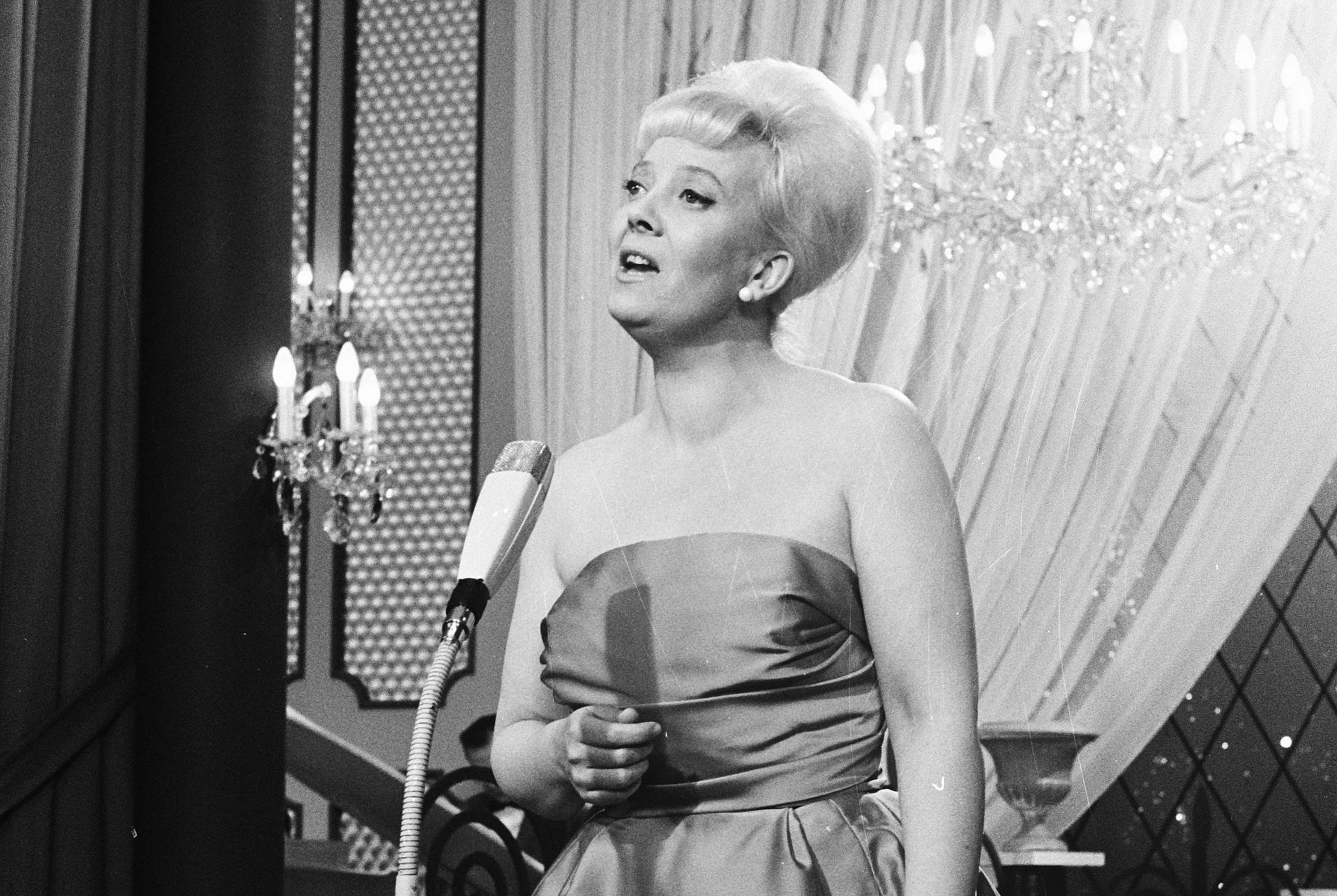 Inger Jacobsen at the 1962 Eurovision Song Contest in Luxembourg.